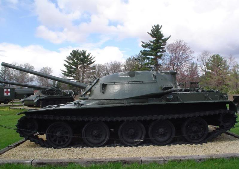 Prototype T-95 tank